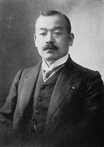 Saneteru Ichijo